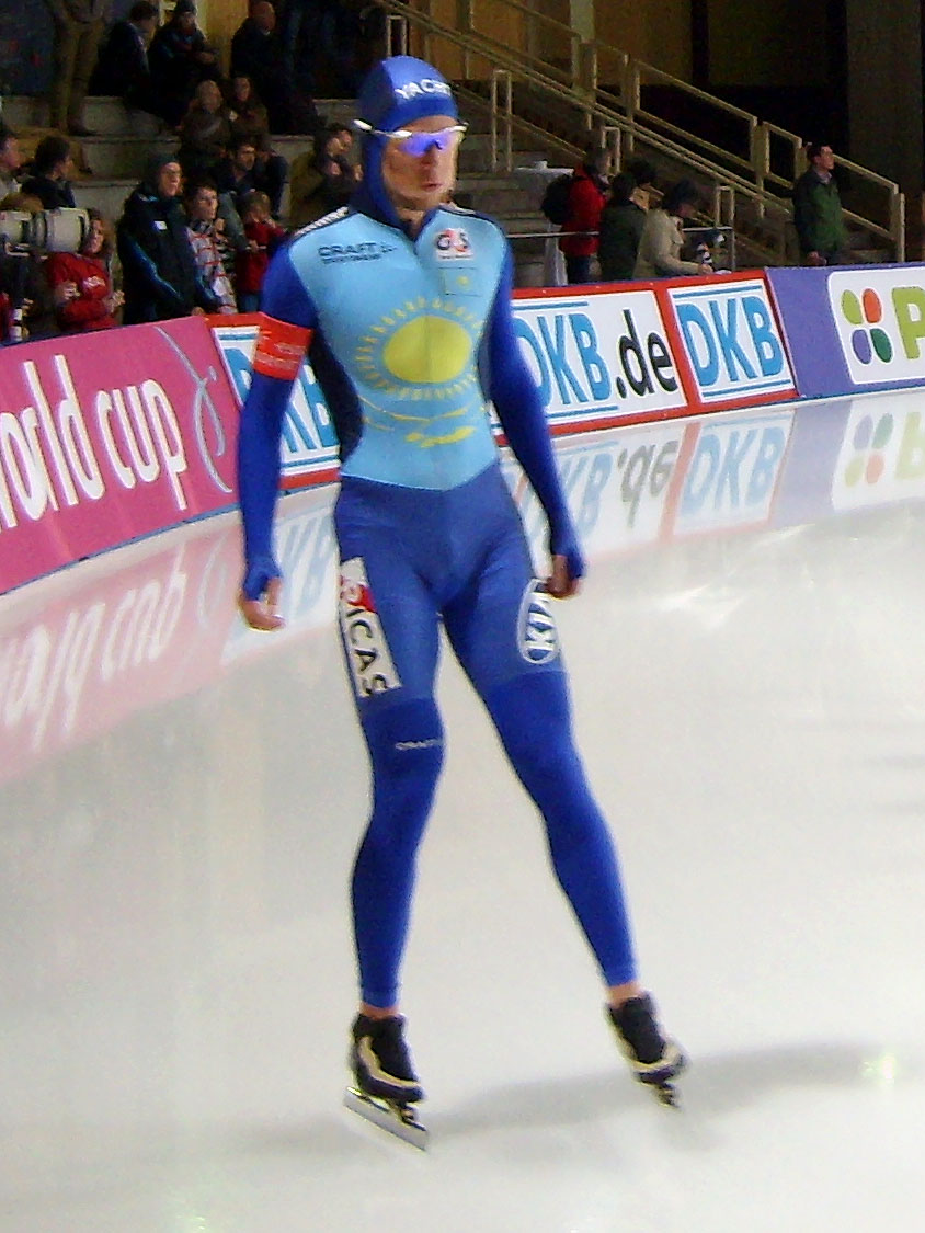 Dmitri Babenko (KAS) befor 1500 meters world cup speedskating race in Berlin, Germany.